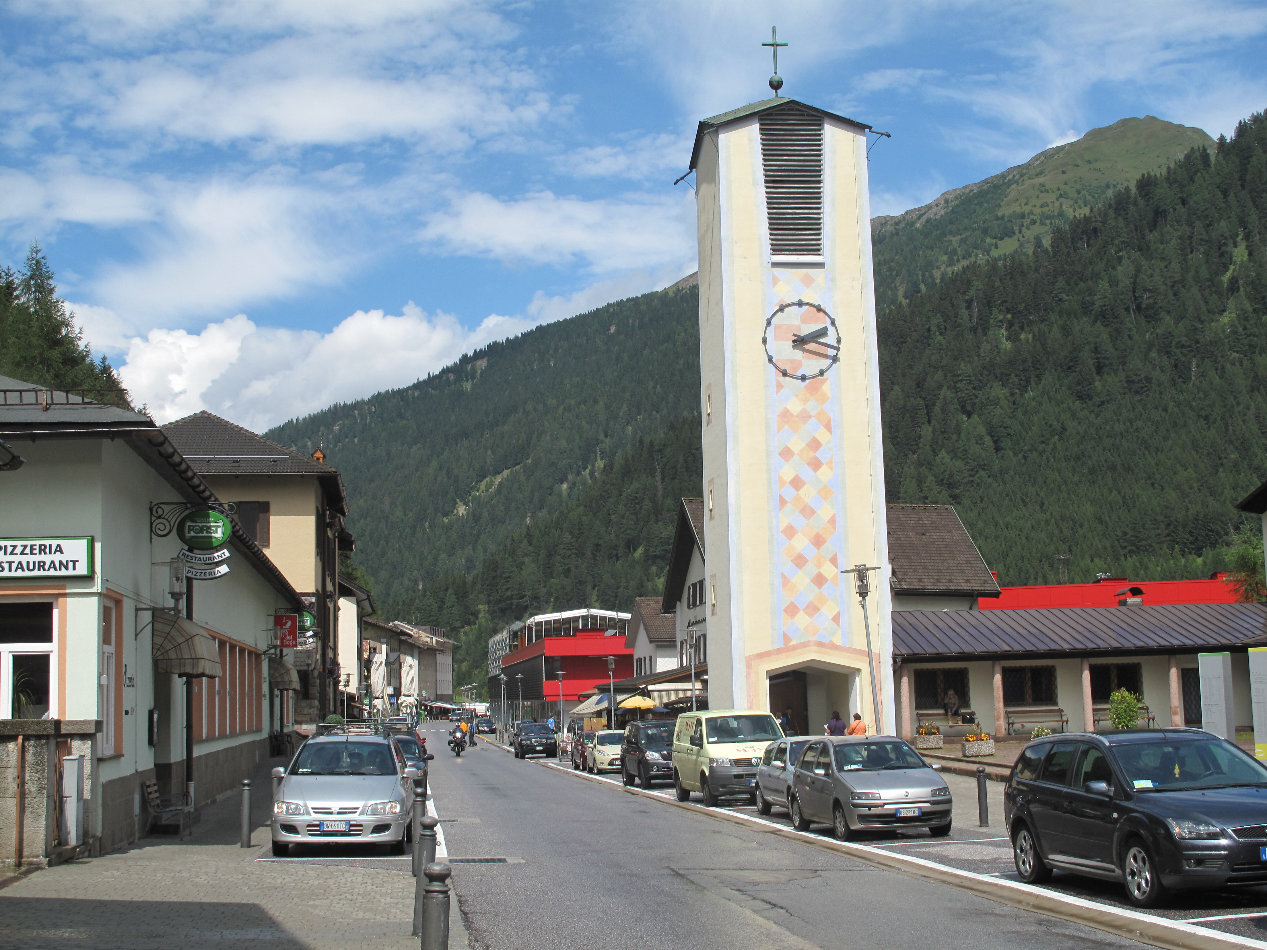 Brennero, church: die Kirche Maria am Wege